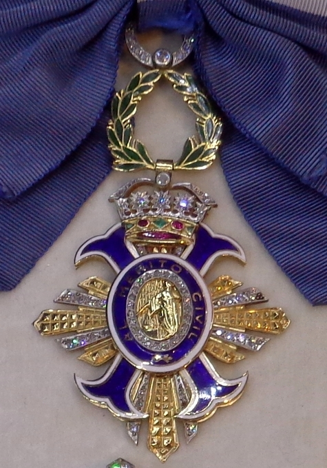 Order of Civil Merit, badge of Grand Cross with diamonds, 1950. Spain. The exhibition of the Tallinn Museum of Orders of Knighthood, Estonia.